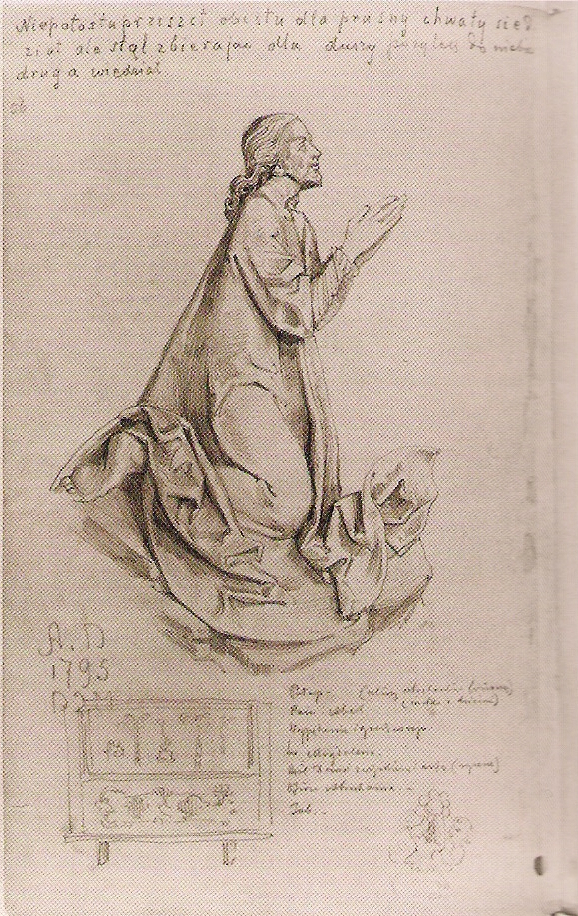 Drawing of Wit Stwosz's sculpture "Christ in Gethsemane" from Ptaszkowa by Stanisław Wypiański (1869-1907). Drawing (33,2x20,4 cm, pencil, paper) from Wyspiański's sketchbook, now located in Museum of Jagiellonian University, Kraków, No 15623